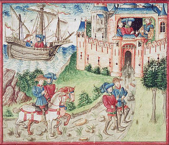 Jean Froissart and Espaing de Lyon on their way; Gaston Phébus receiving them. Contents: Jean Froissart, Kroniek (Vol. III). Translated from the French by Gerrit Potter van de Loo Place of origin, date: North Holland; c. 1450-1460 Material: Paper, ff. 385, 385x270 (295x205) mm, 36 lines, littera cursiva, Binding: 16th-century brown leather; blind Decoration: 9 two-column miniatures (...x... mm); penwork initials with pen-flourishes in North Holland style (`mask'; ff. Provenance: Claes van Bronchorst, canon at Voorne, Zeeland (1564). Purchased from antiquarian bookseller Thorpe, London by Th. Phillipps (Phillips no. 2639); purchased in 1889 by the Dutch government and placed in the KB